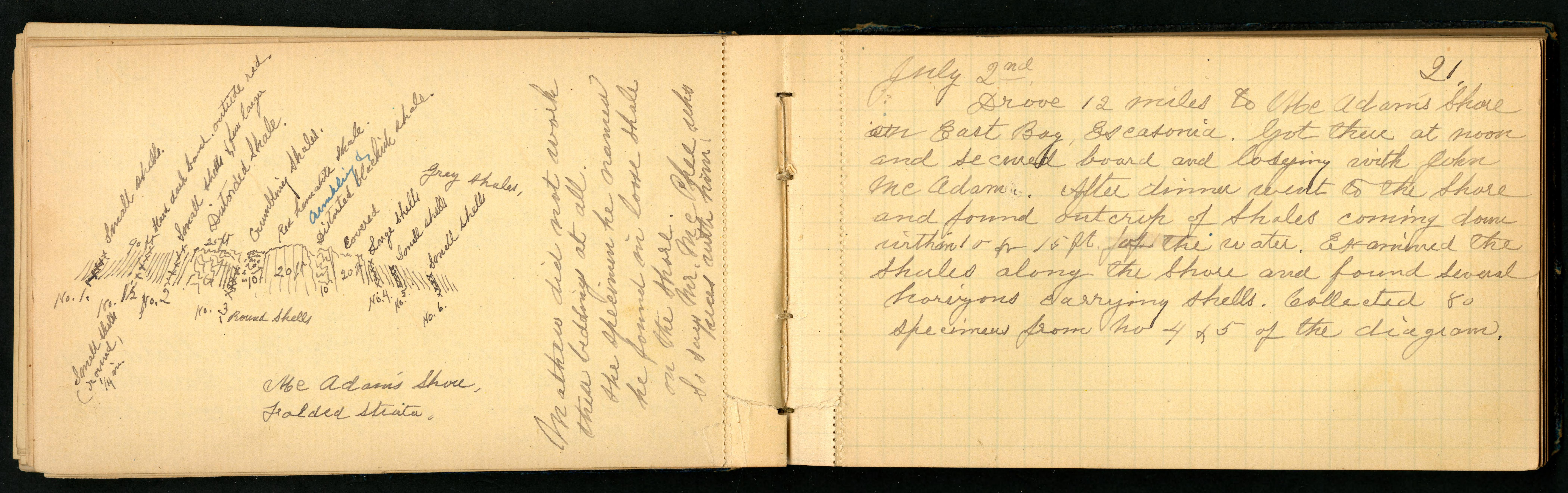 Field notebook, Cape Breton, Nova Scotia, 1901